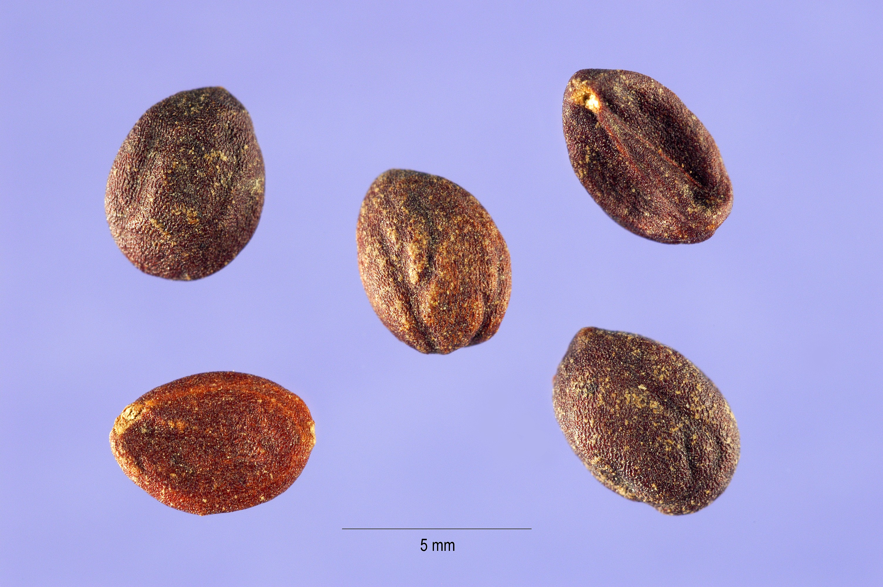 Seed of Ligustrum vulgare L. - European privet